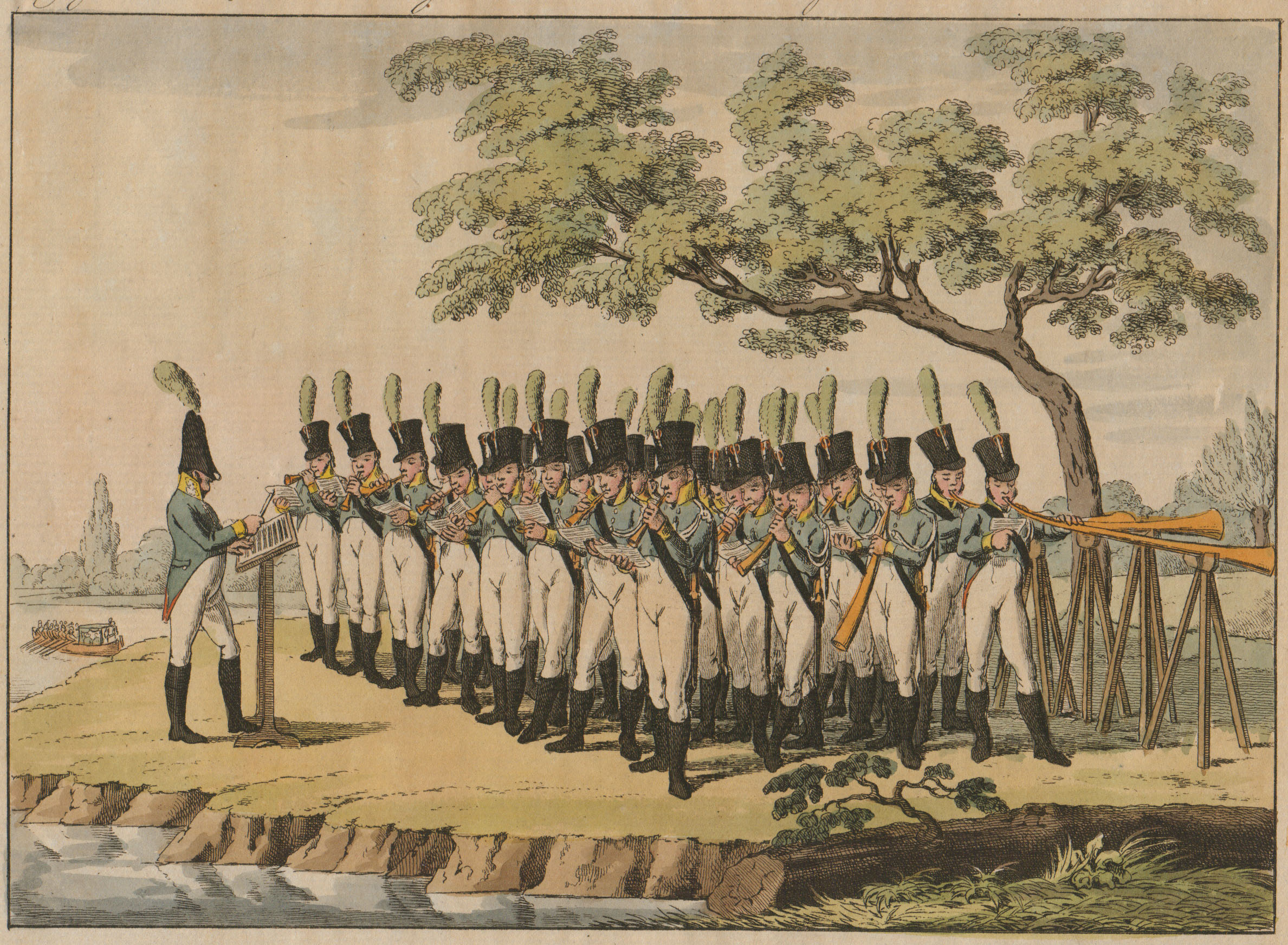 A group of horn musicians, playing russian horn music